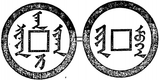 Sura han ni chiha written in Manchu script by 《Currency of the farther East》 in 1895. ᠮᠠᠨᠵᡠ: ᠰᡠᠷᡝ ᡥᠠᠨ ᡳ ᠵᡳᡥᠠ